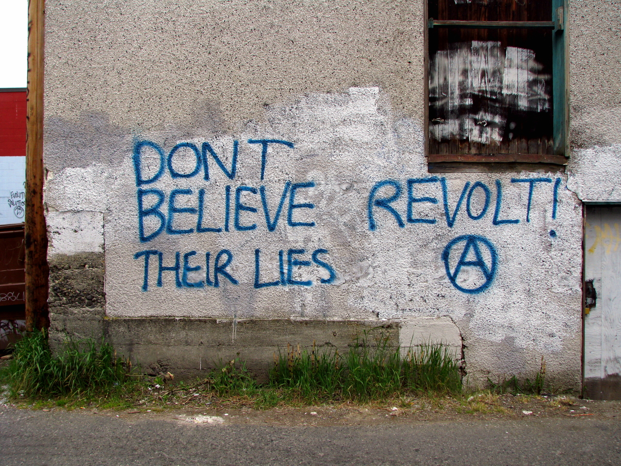 Public art seen in Vancouver BC Canada.